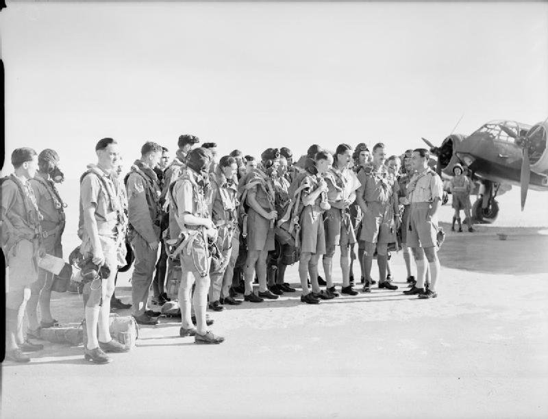 Royal Air Force Operations in the Middle East and North Africa, 1939-1943. The Commanding Officer of No. 84 Squadron RAF briefs his aircrew before a training sortie at Shaibah, Iraq.